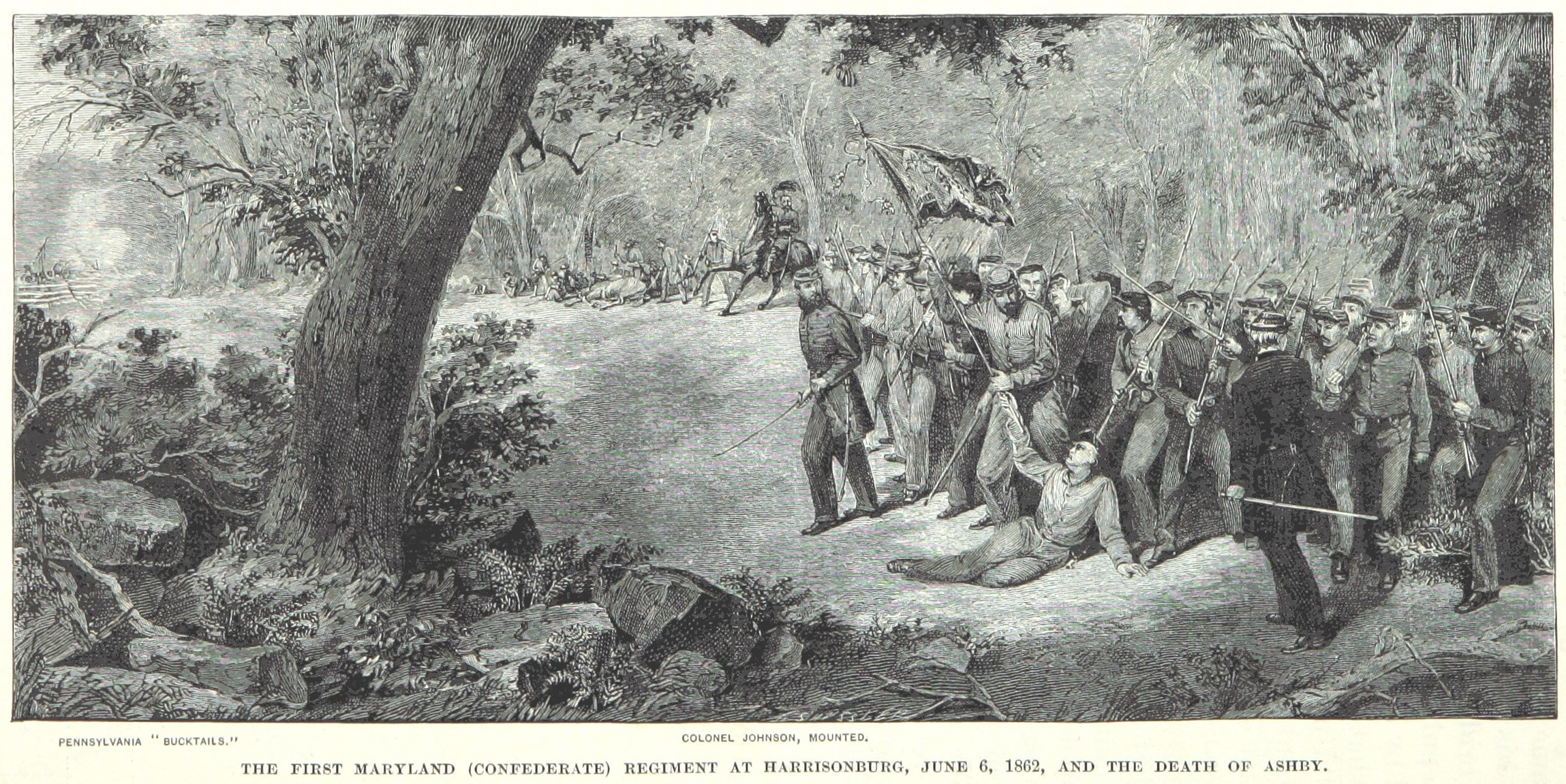 The death of Turner Ashby at the Battle of Good's Farm.